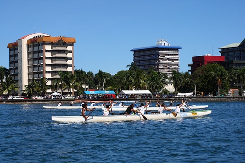 Southern end